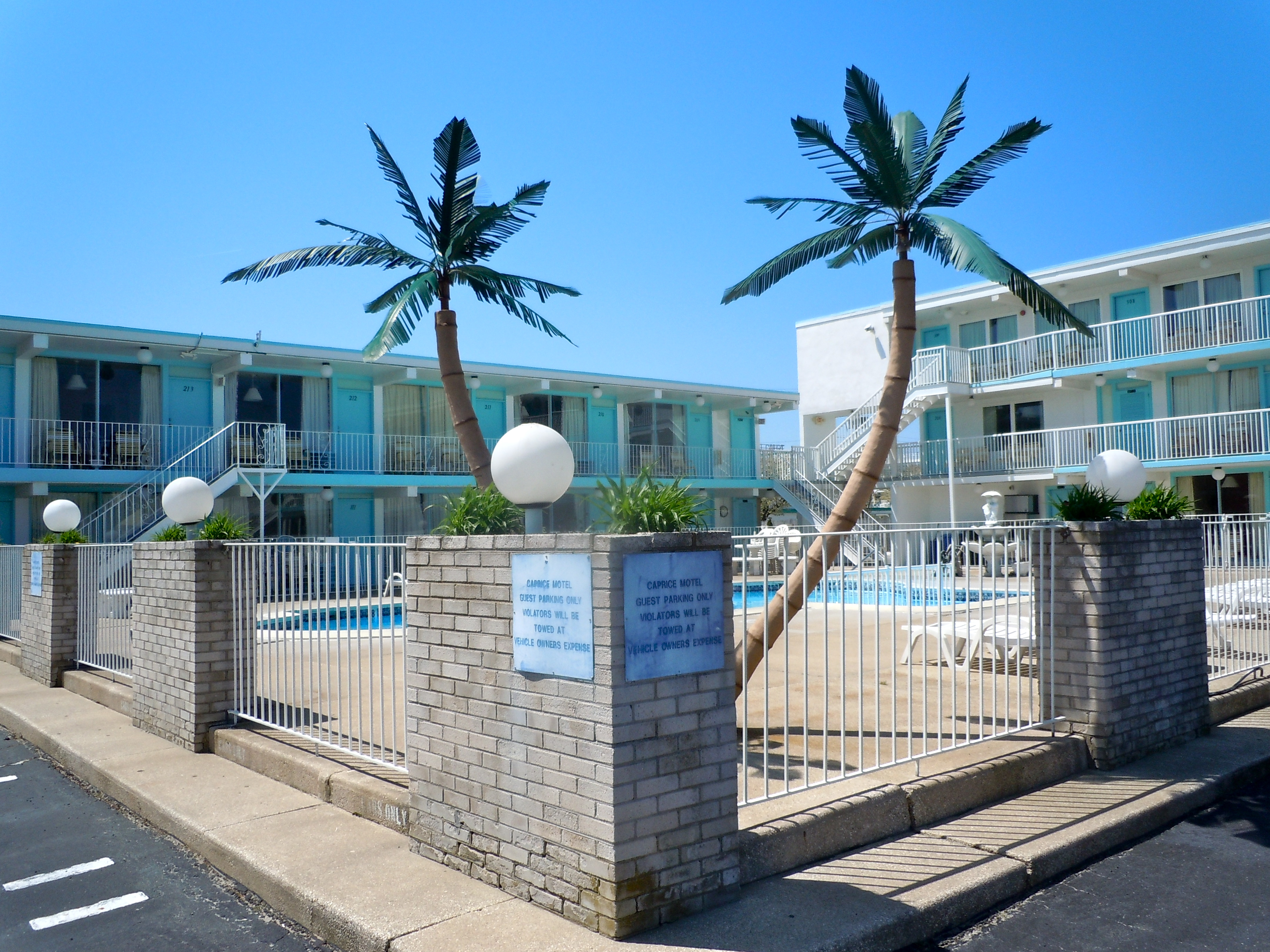 Caprice Motel in Wildwood, New Jersey. In the Wildwood Shore Historic District (an official NJ Historic District, but the district is NOT NRHP).